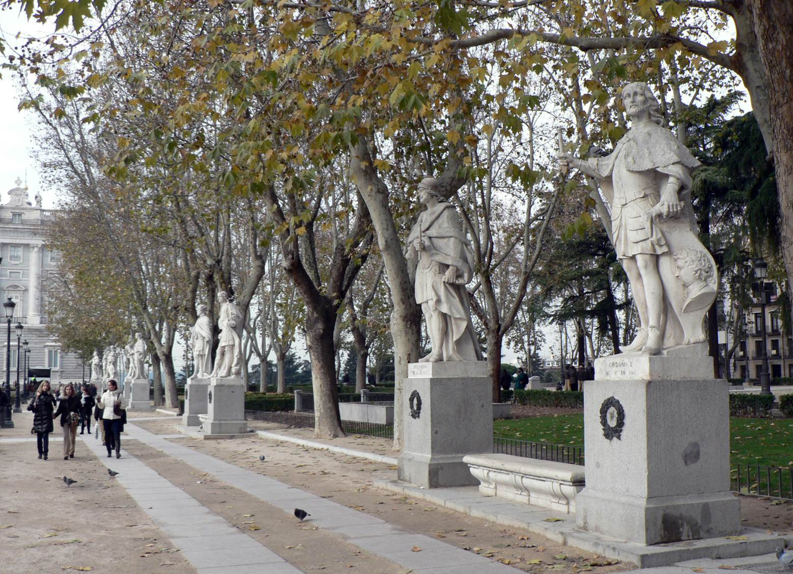 Partial view of the Plaza de Oriente (square) in Madrid (Spain), with some of the statues of monarchs from the Royal Palace sculpted between 1750 and 1753.